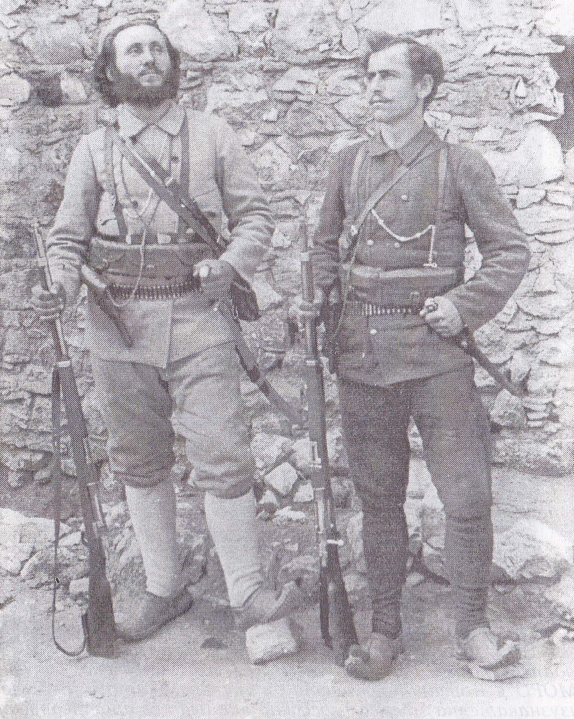 bulgarian revolutionary/ies